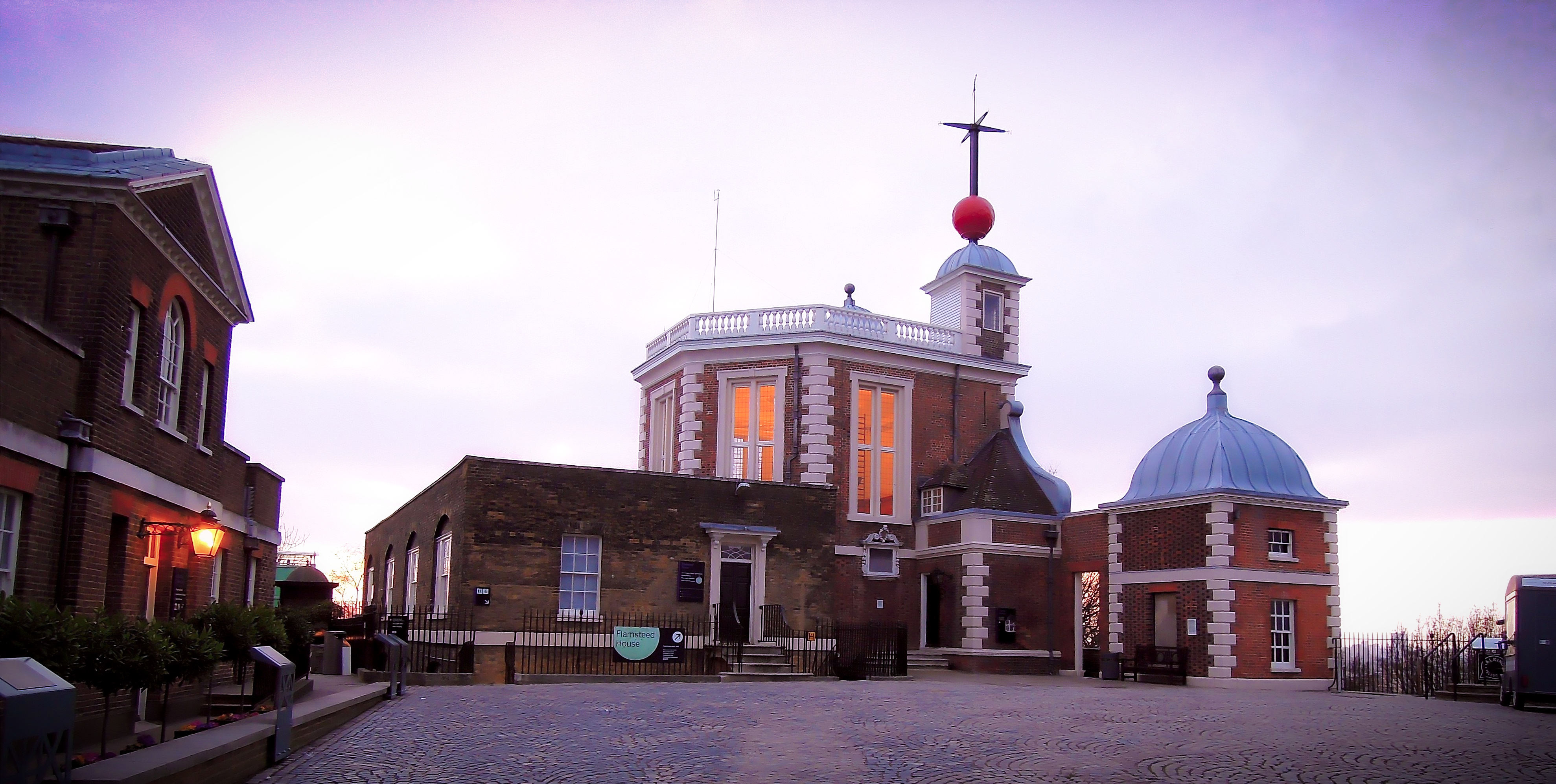 Greenwich Park, London, UK, March 2015. The Mariners Time Ball at Flamsteed House. The time ball is lifted to halfway at 12:55 GMT (BST in Summer), at 12:58 it is raised to the top and at 13:00 GMT it drops to indicate precise time to Mariners on the River Thames below.